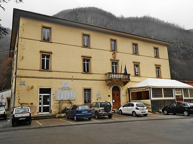 town hall in Taviano